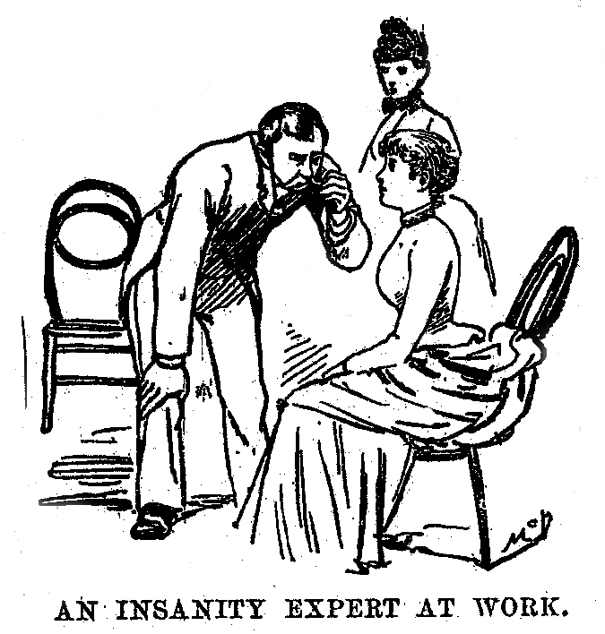 An insanity expert at work